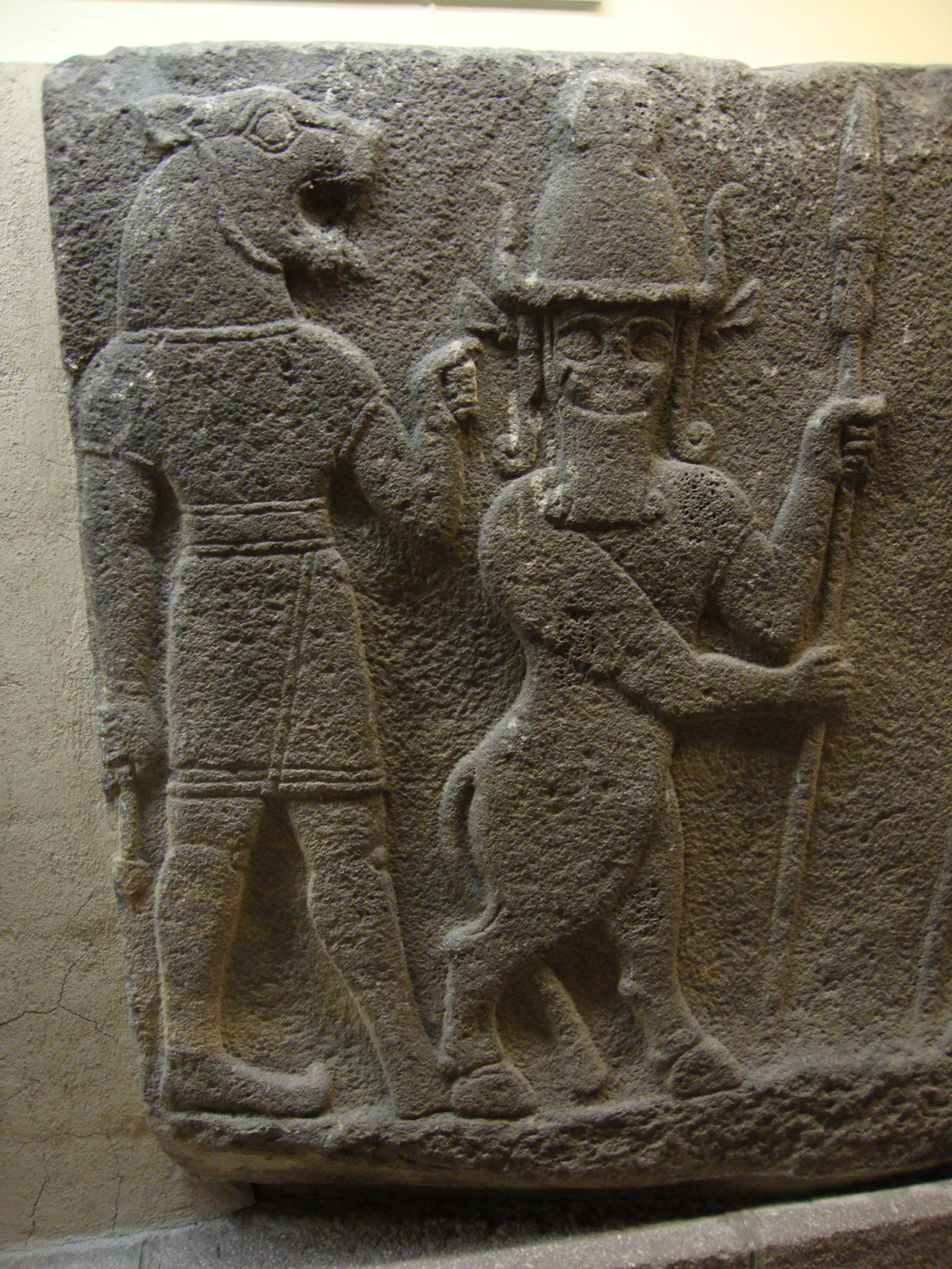 Hittite bas relief in Ankara's Museum of Anatolian Civilization.